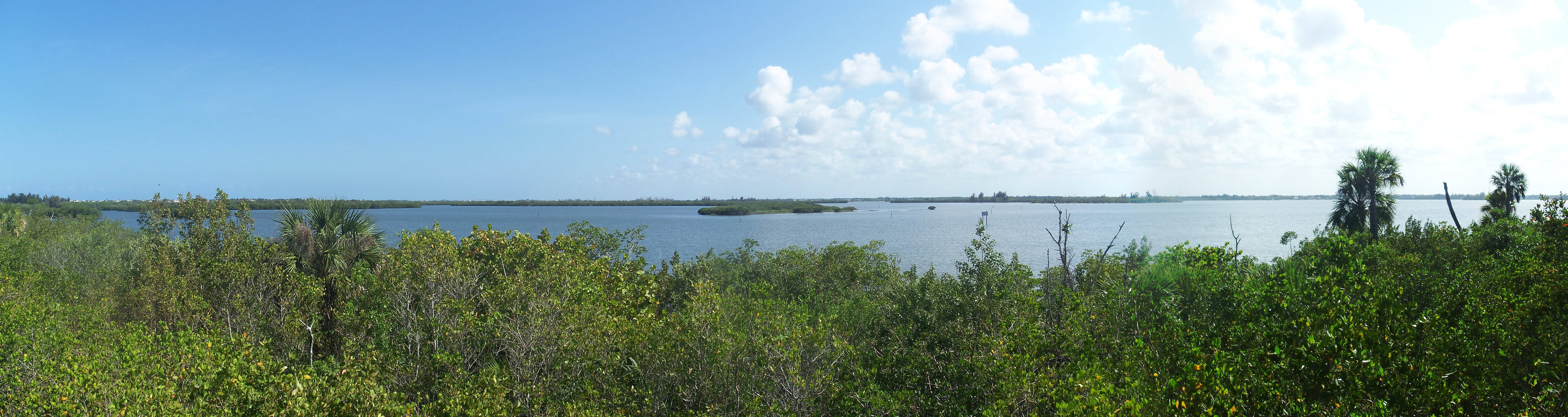 Orchid, Florida: Pelican Island National Wildlife Refuge: Centennial Trail: View from observation area, at end of the boardwalk